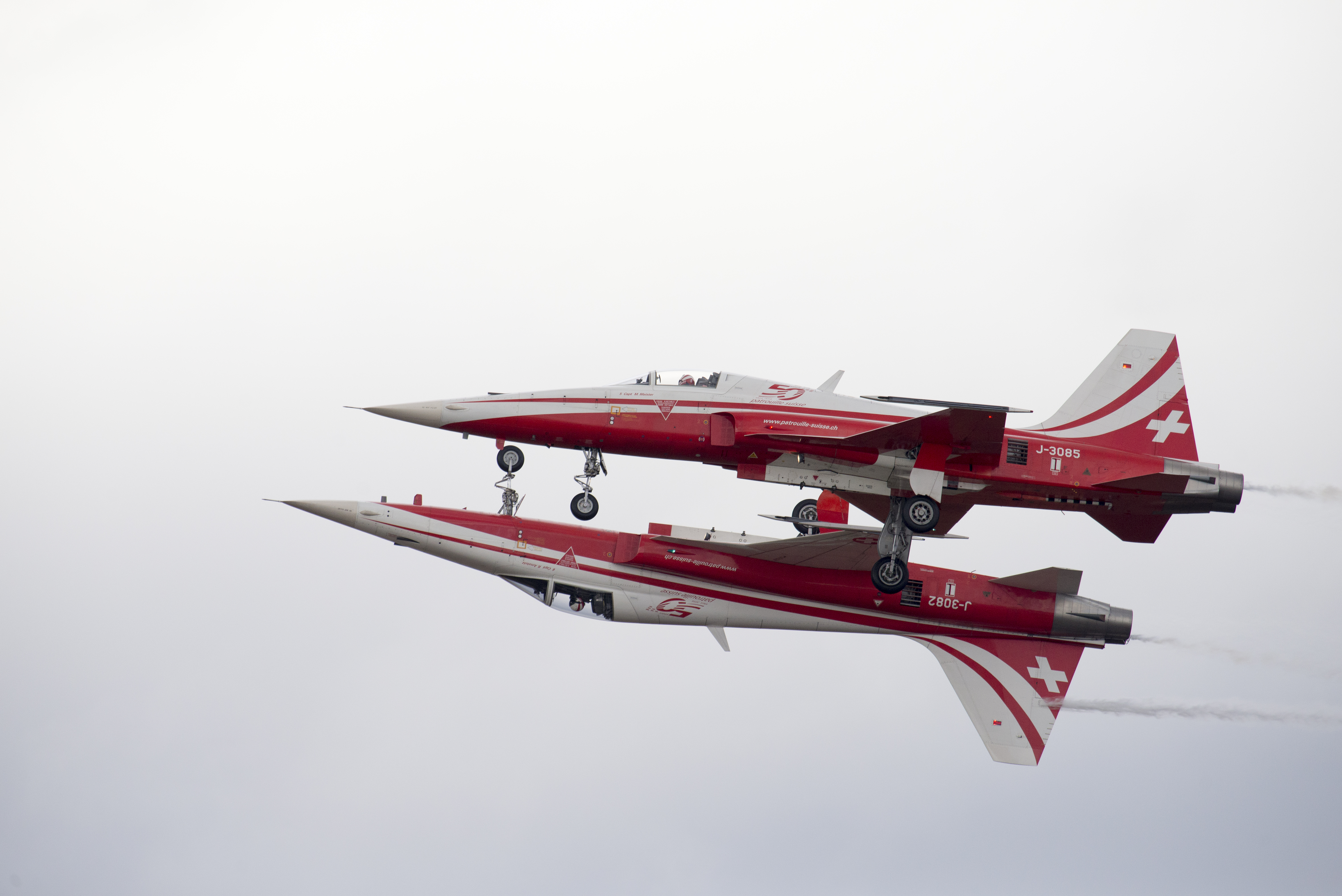 Patrouille Suisse - Northrop F-5E Tiger II - Swiss Aerobatic Team